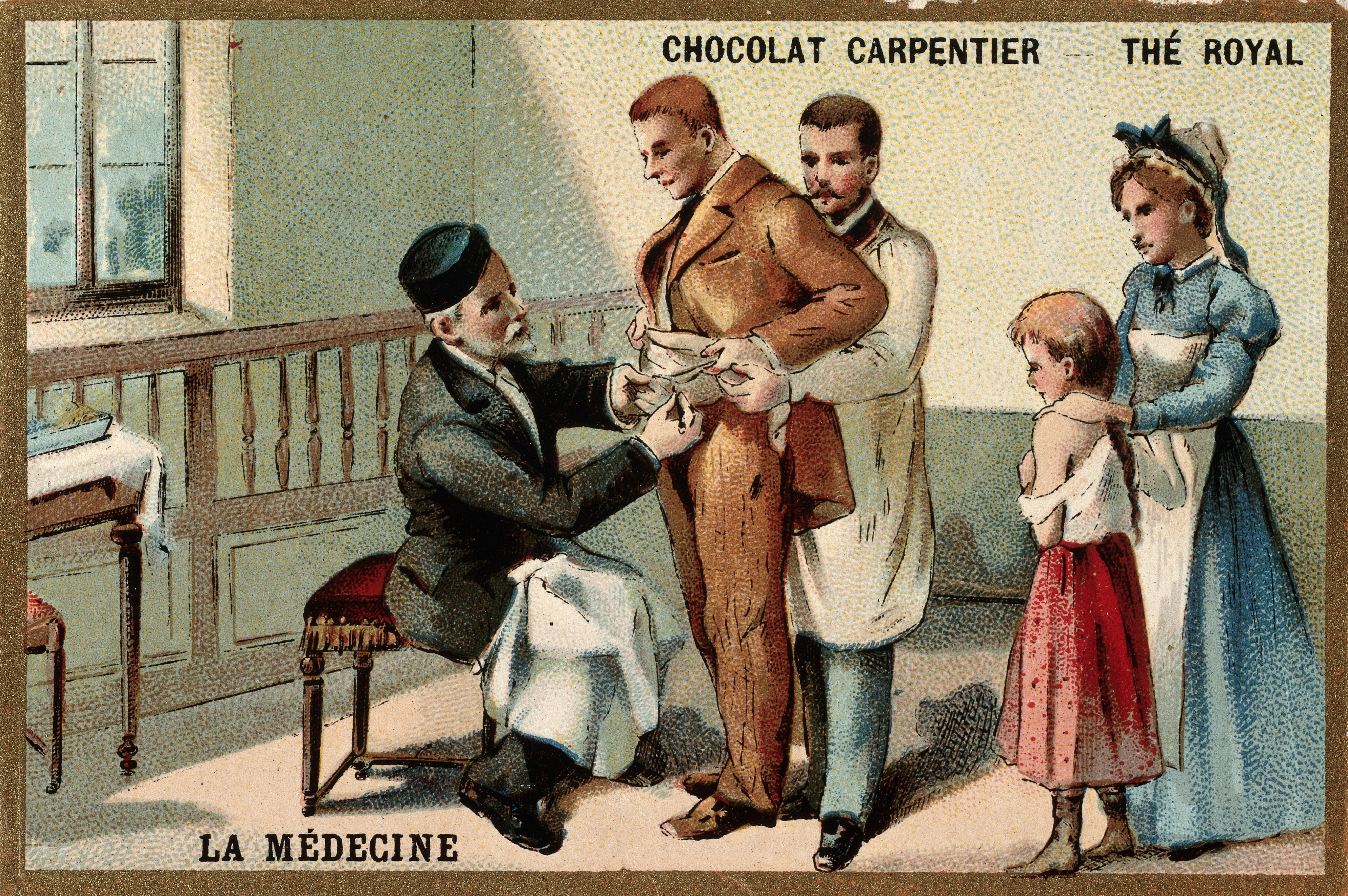 Pasteur inoculating a man with the rabies virus. Chromolithograph. Iconographic Collections Keywords: Inoculation; Rabies; Louis Pasteur; Pierre-Paul-Émile Roux